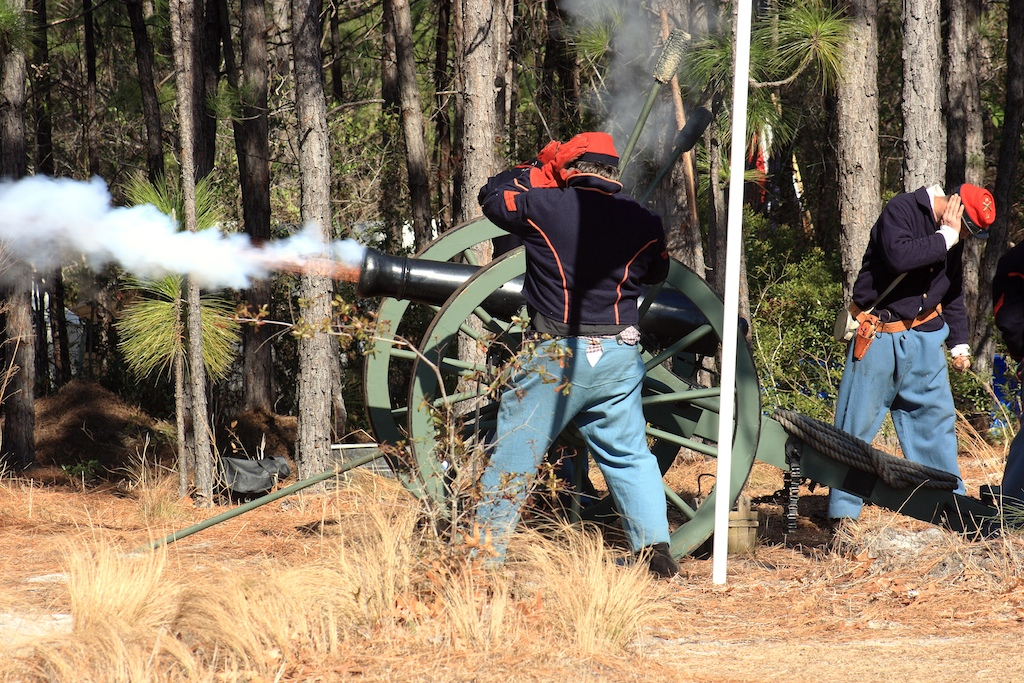 photograph taken during a reenactment of the Battle of Forks Road at the end of the Civil War.